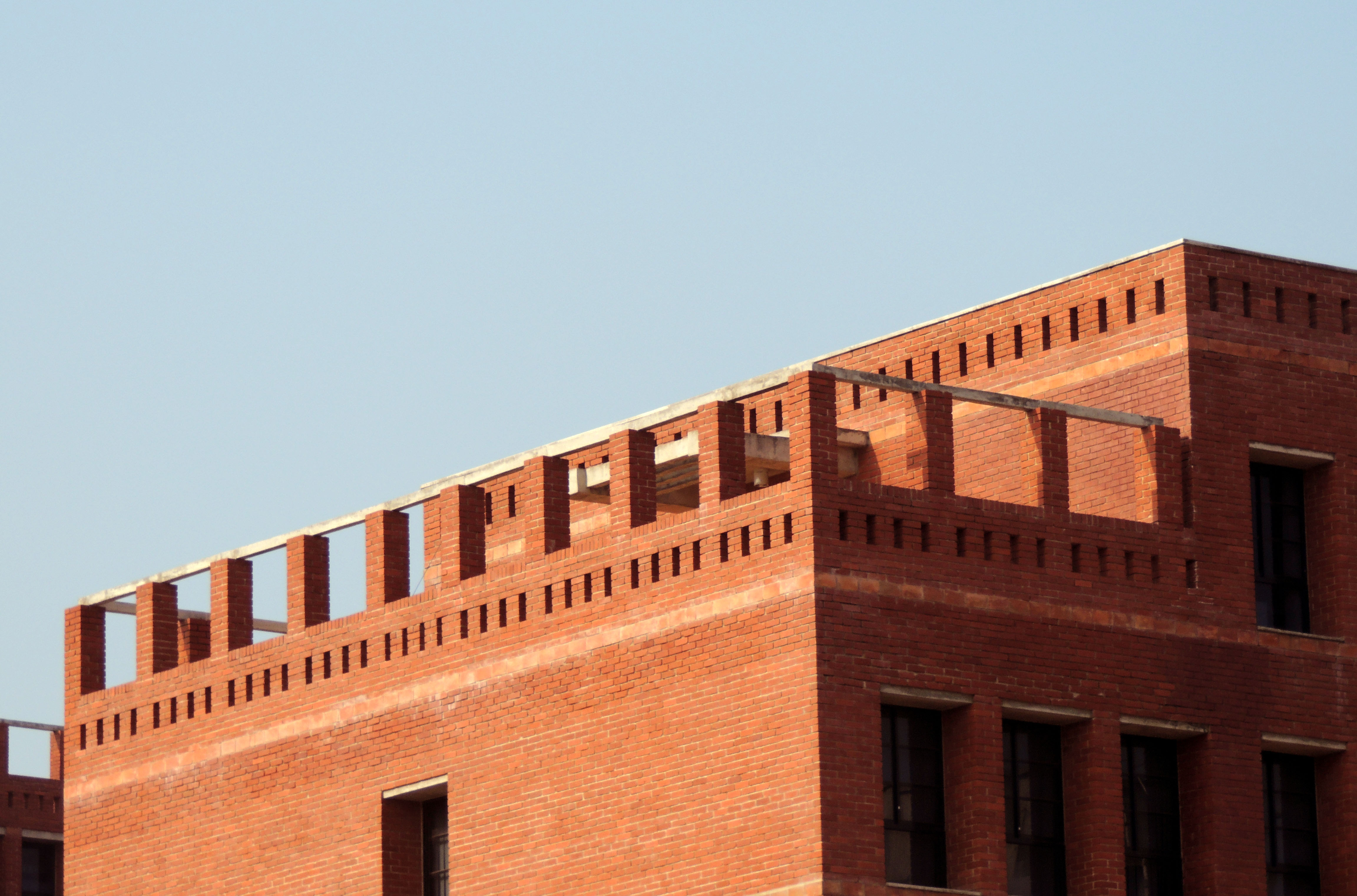 East West University Dhaka